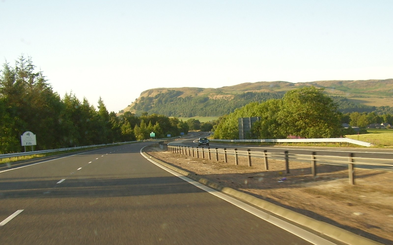 own photo